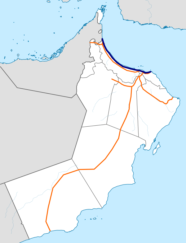 R1 in Oman